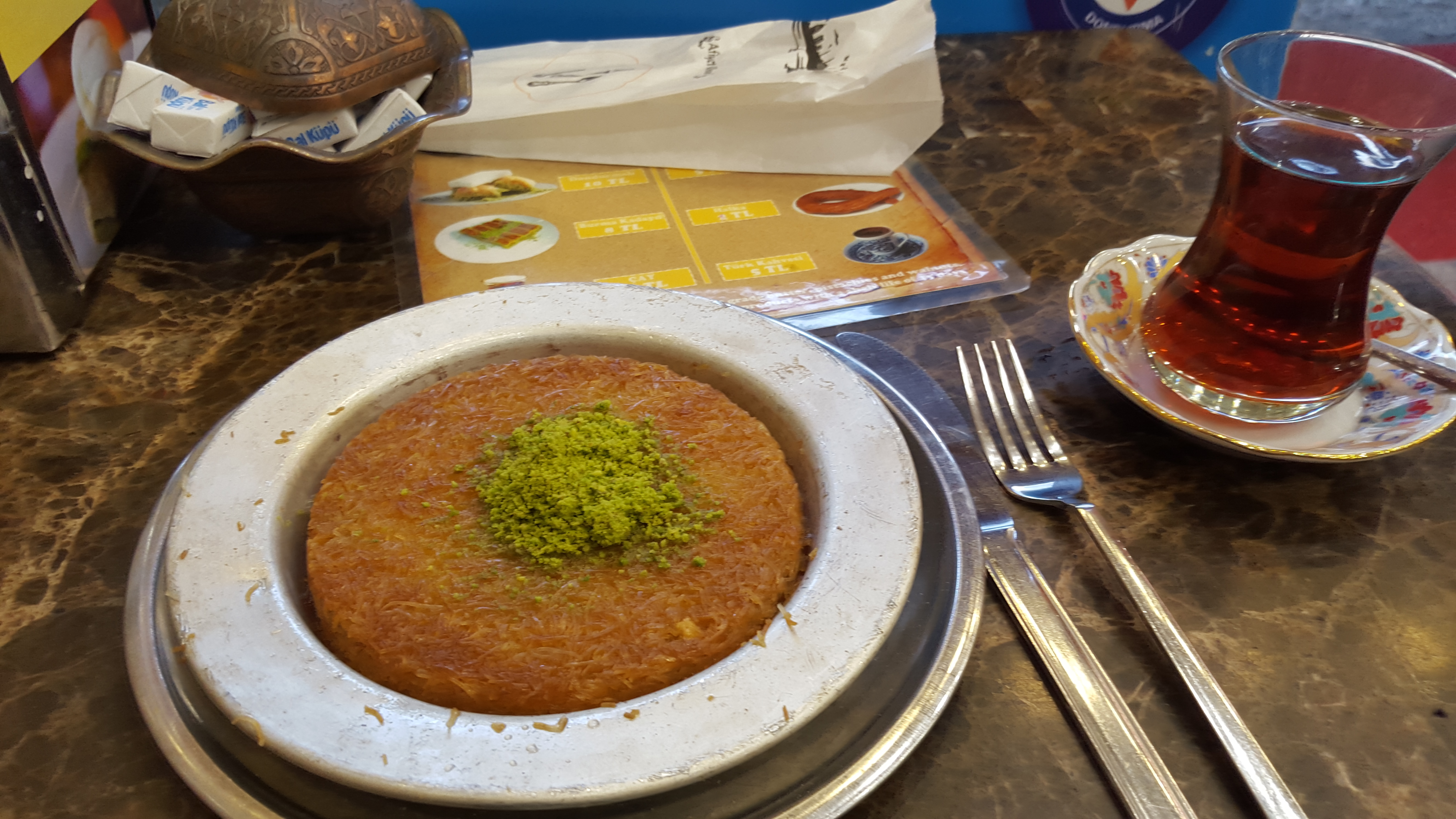 turkish Kanafeh